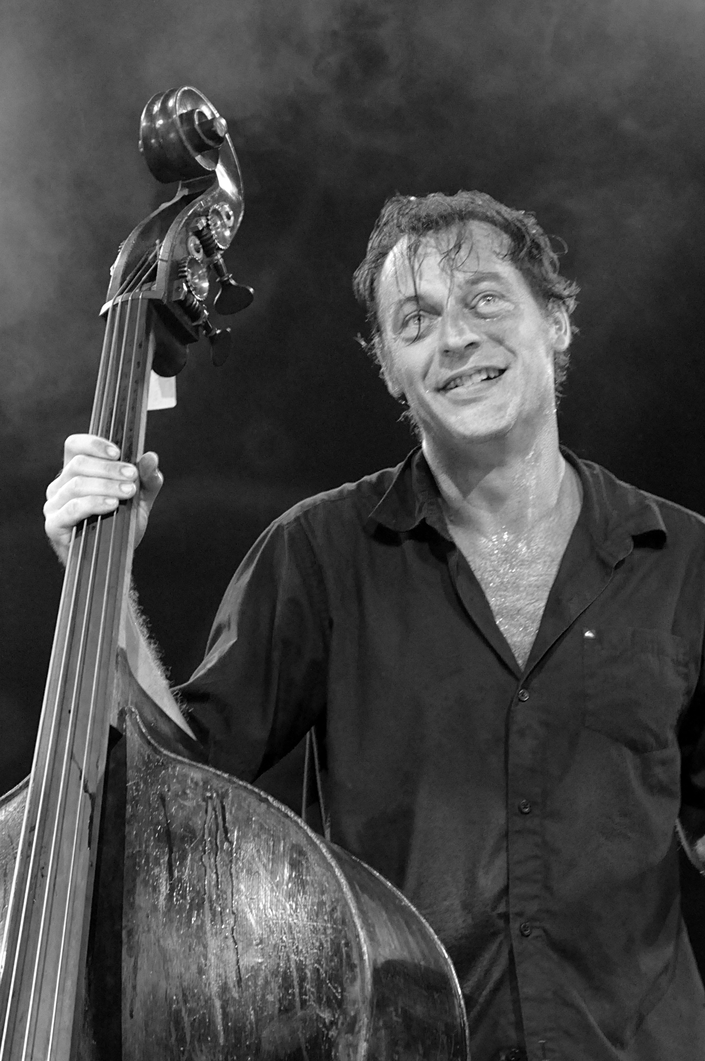 Portrait of the french upright bass player François Moutin, with the "Moutin Réunion Quartet", taken on 2010-08-11 during "Cap Jazz" festival in Cap d'ail (French Riviera)